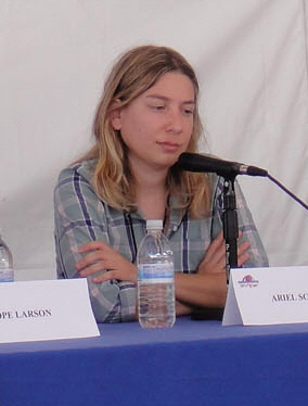 WeHo Book Fair 2010 - Lillian Diaz-Przbyl interviews Hope Larson, Ariel Schrag, and Esther Pearl Watson at the Femme Fantastic panel